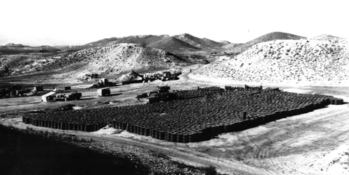 Barrels of contaminated soil collected at Palomares, Spain for removal to the United States